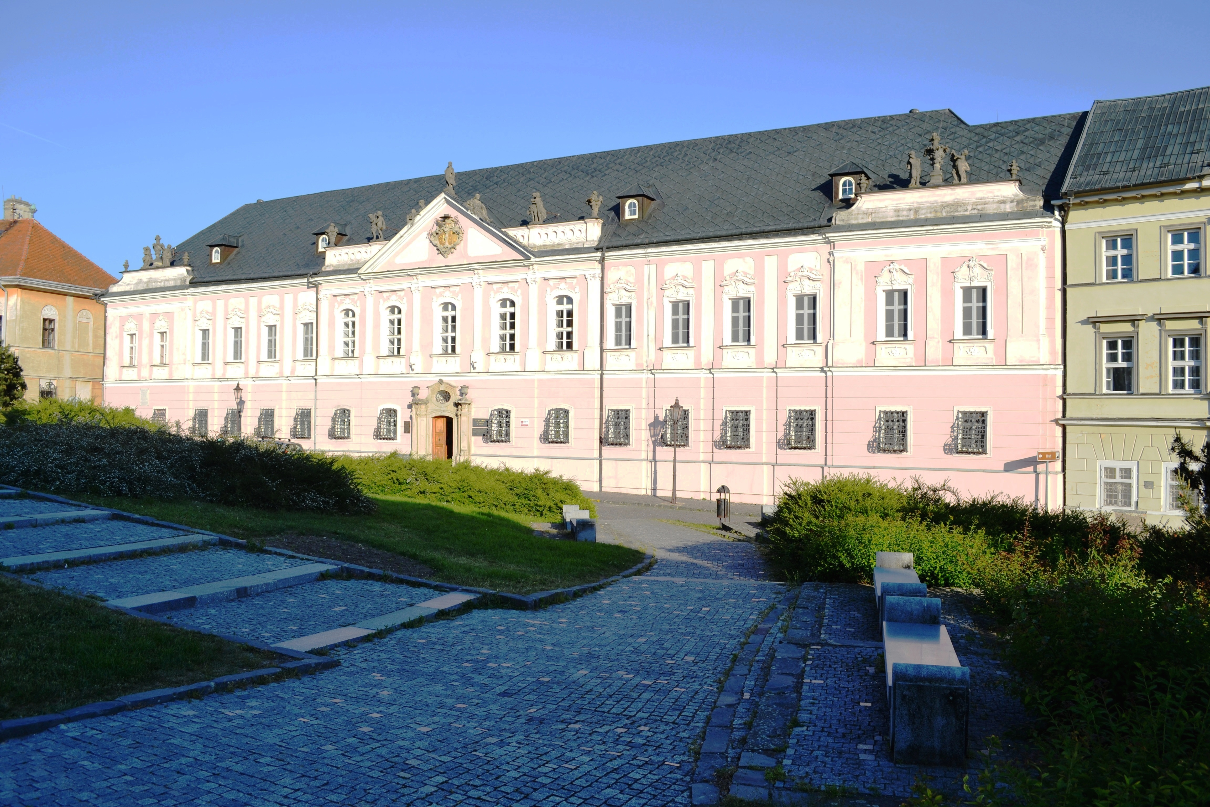 Grand Seminary, Samo street 14, Nitra.